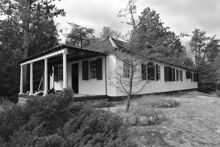 Main cabin, William Ingersoll Estate, Ingersoll's Island, Sand Point Lake, Voyageurs National Park, Minnesota, USA. Viewed from the southeast.